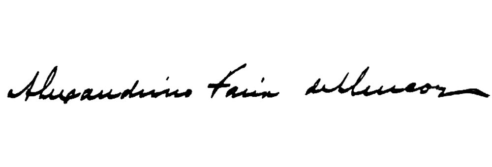 Alexandrino Faria de Alencar.